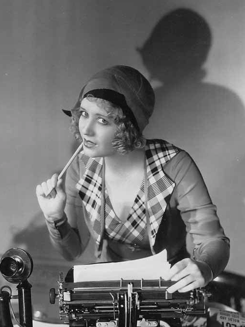 Promotional photo of actress Ona Munson, 1931